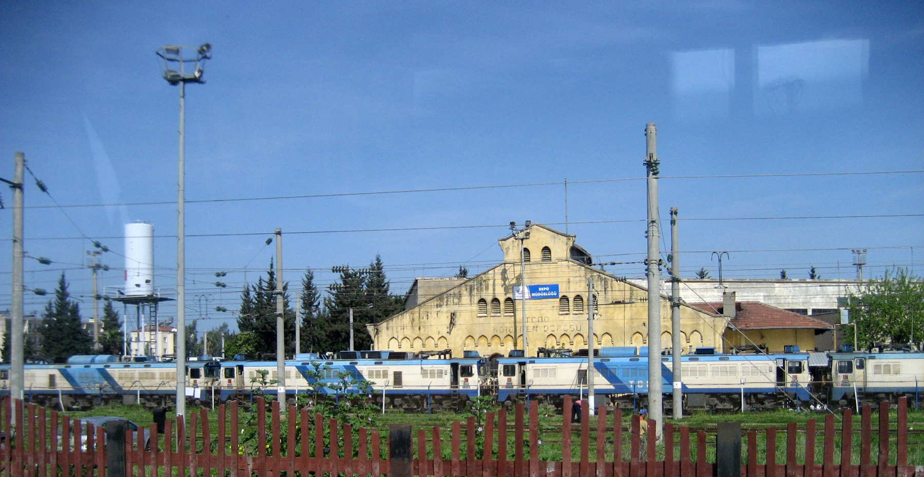 İskenderun train station. Hatay province, Turkey.